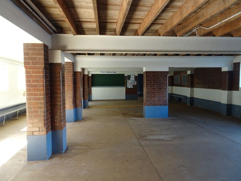 650050_Block A undercroft